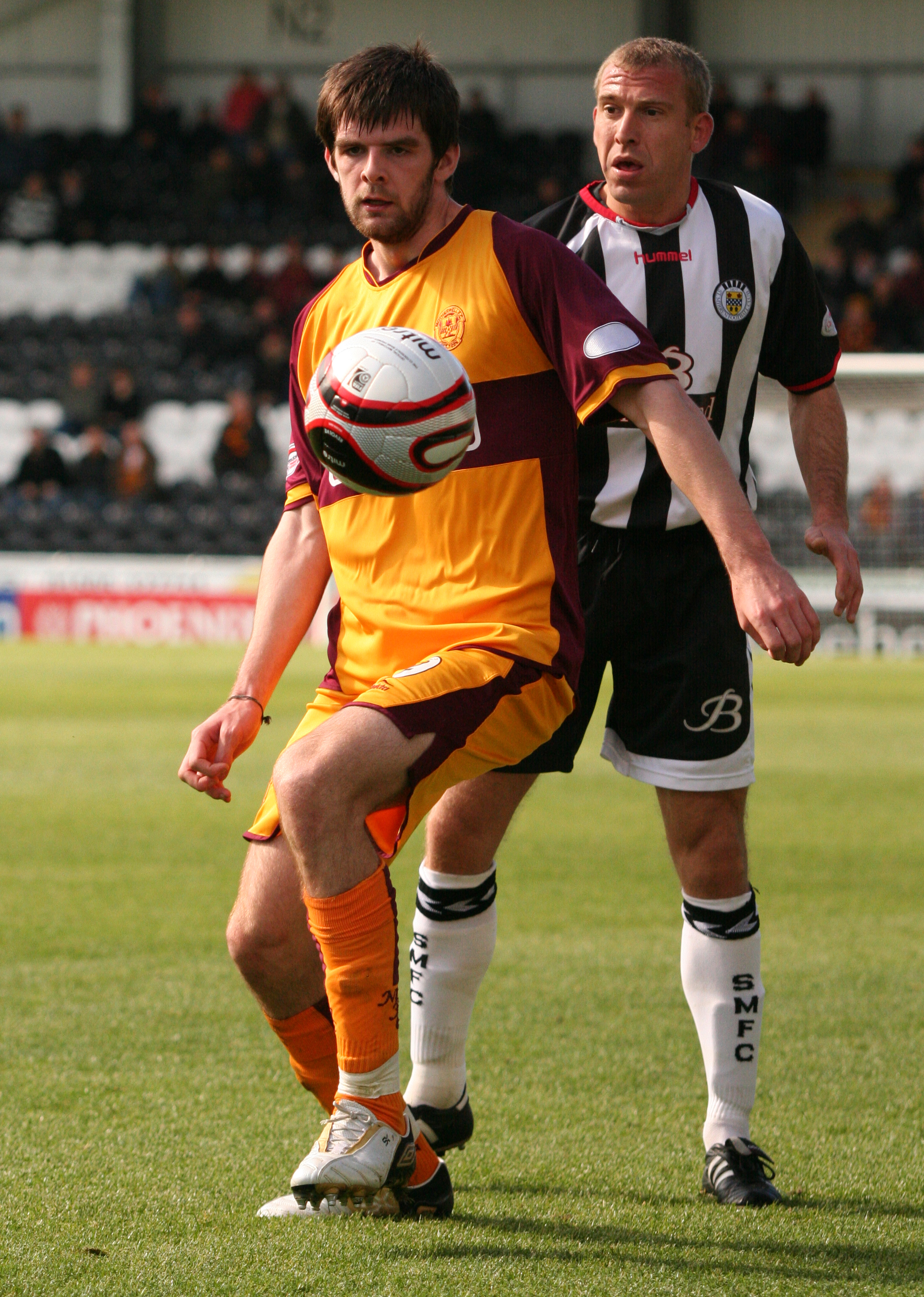 Sheridan